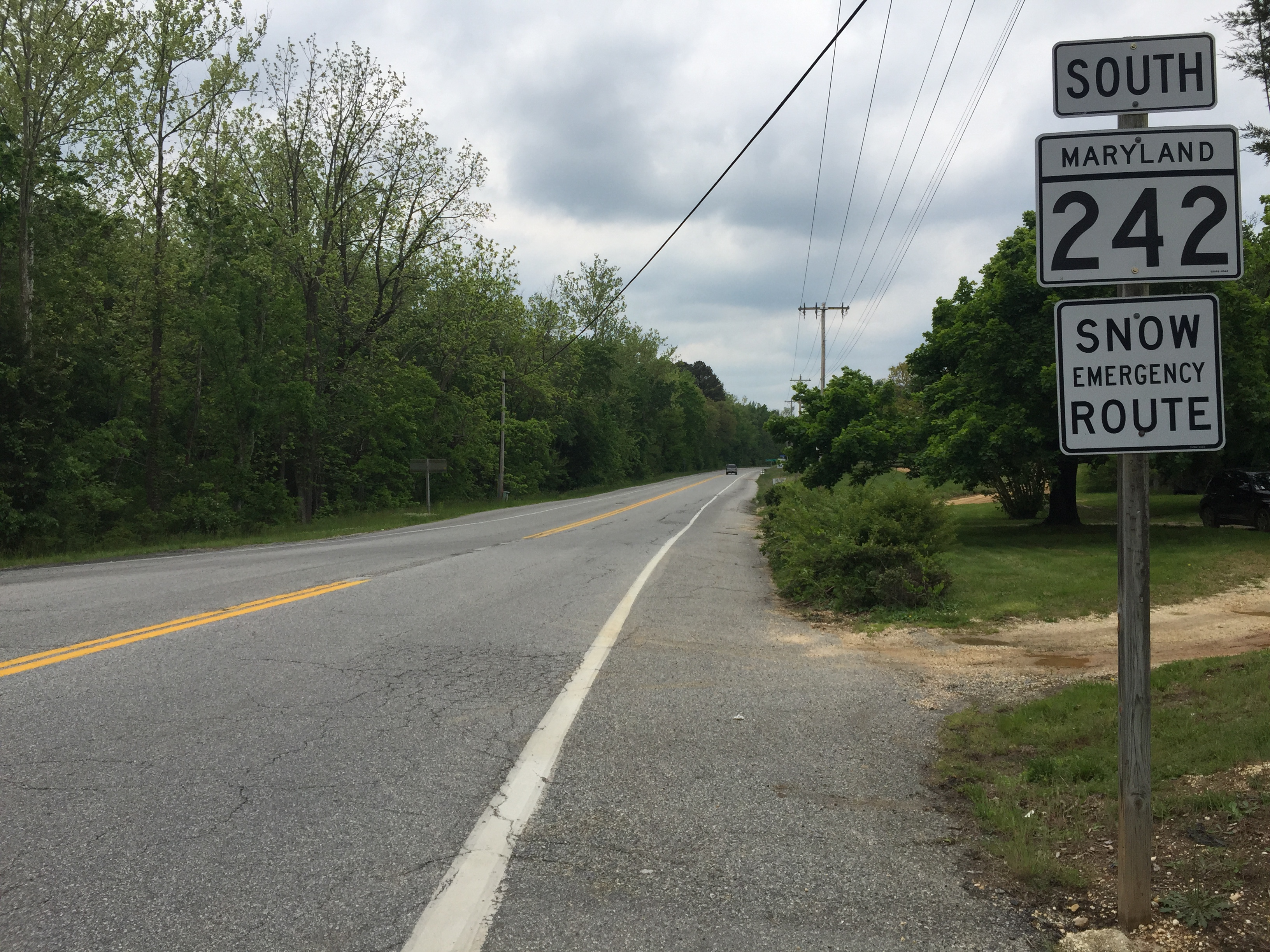 View south along Colton Point Road (Maryland State Route 242) near Point Lookout Road (Maryland State Route 5) in Morganza, St. Mary's County, Maryland